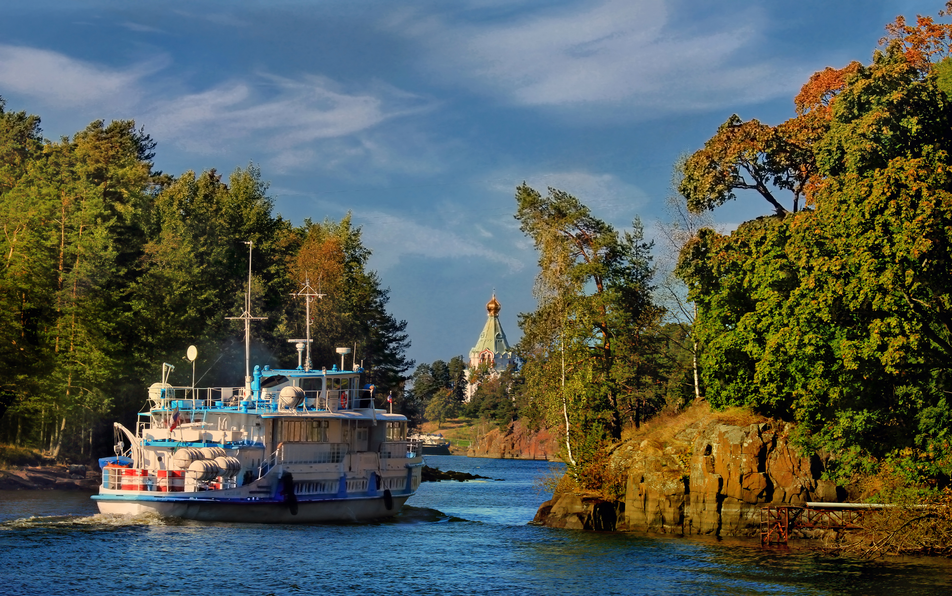 St. Nicholas Skete on island Valaam on Ladoga lake and the ship Severny Afon.